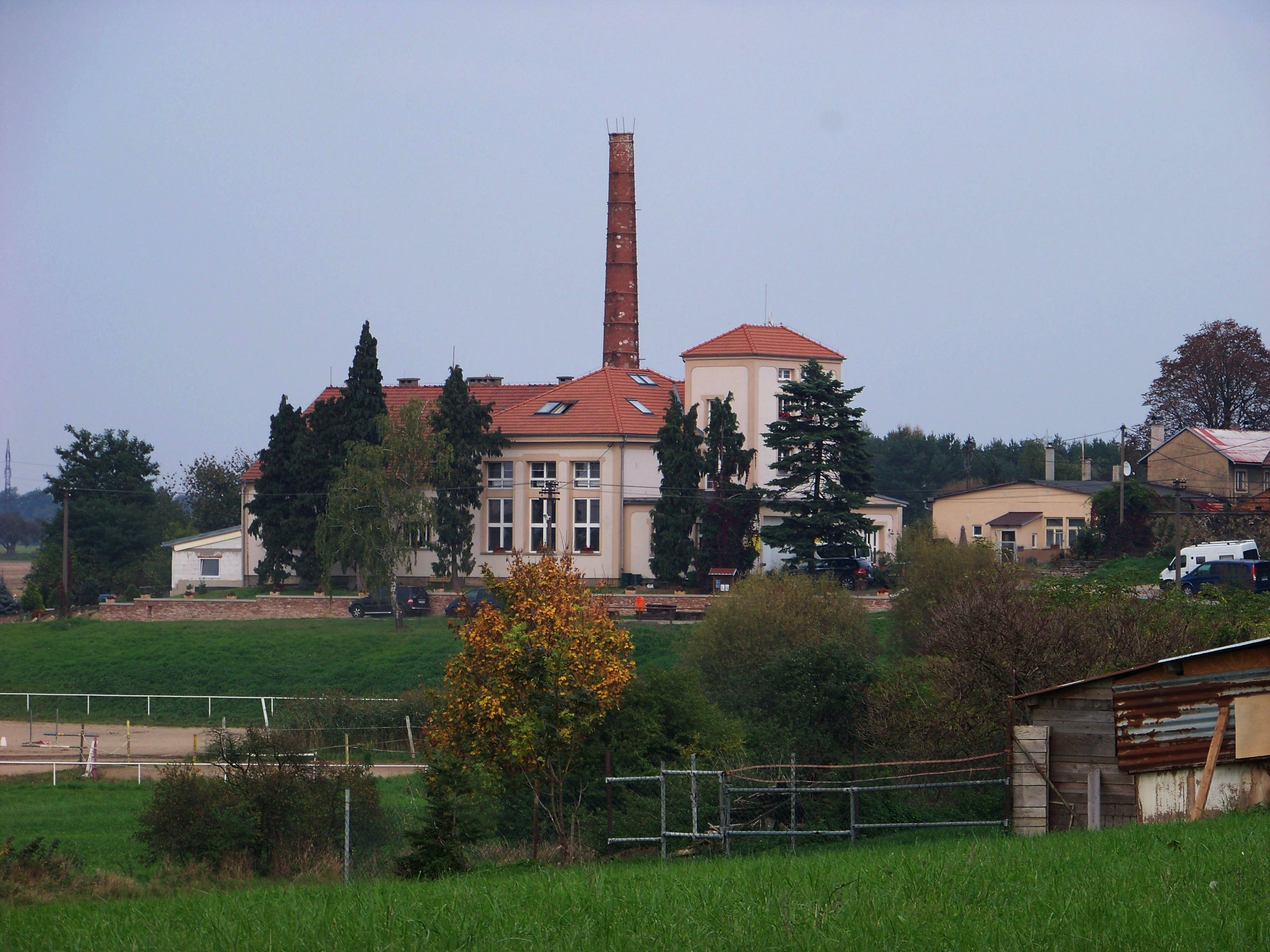 Prague-Uhříněves, Czech Republic. Netluky, a former distillery.